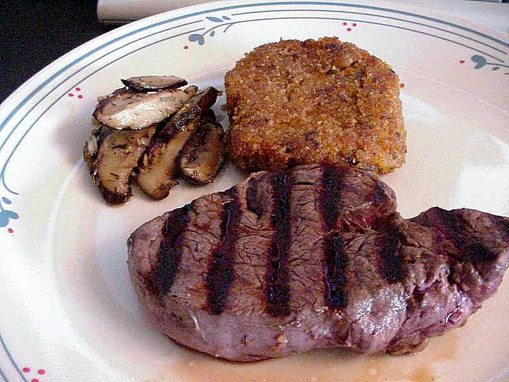 Image title: Thanksgiving steak risotto Image from Public domain images website